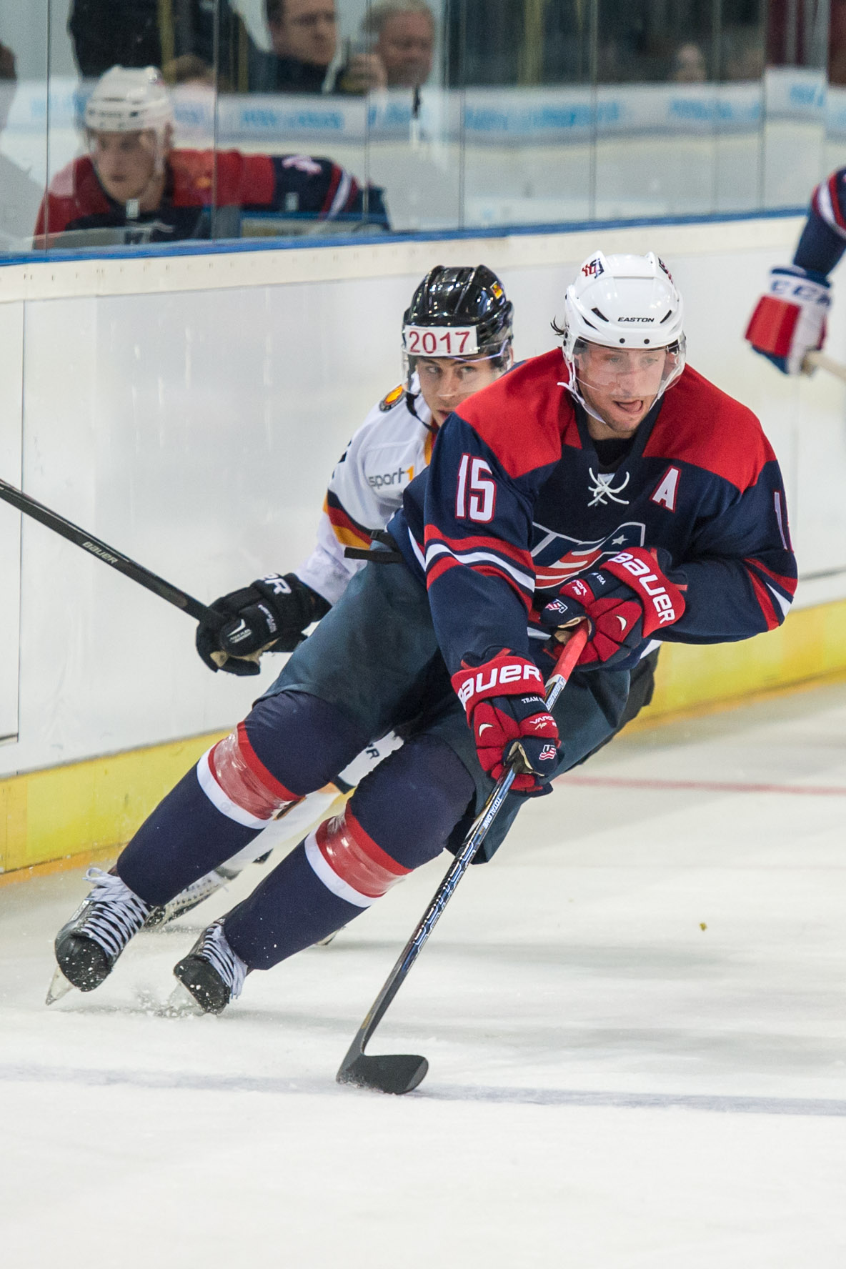 Craig Smith for US-Nationalteam against Germany in Nuremberg/Germany